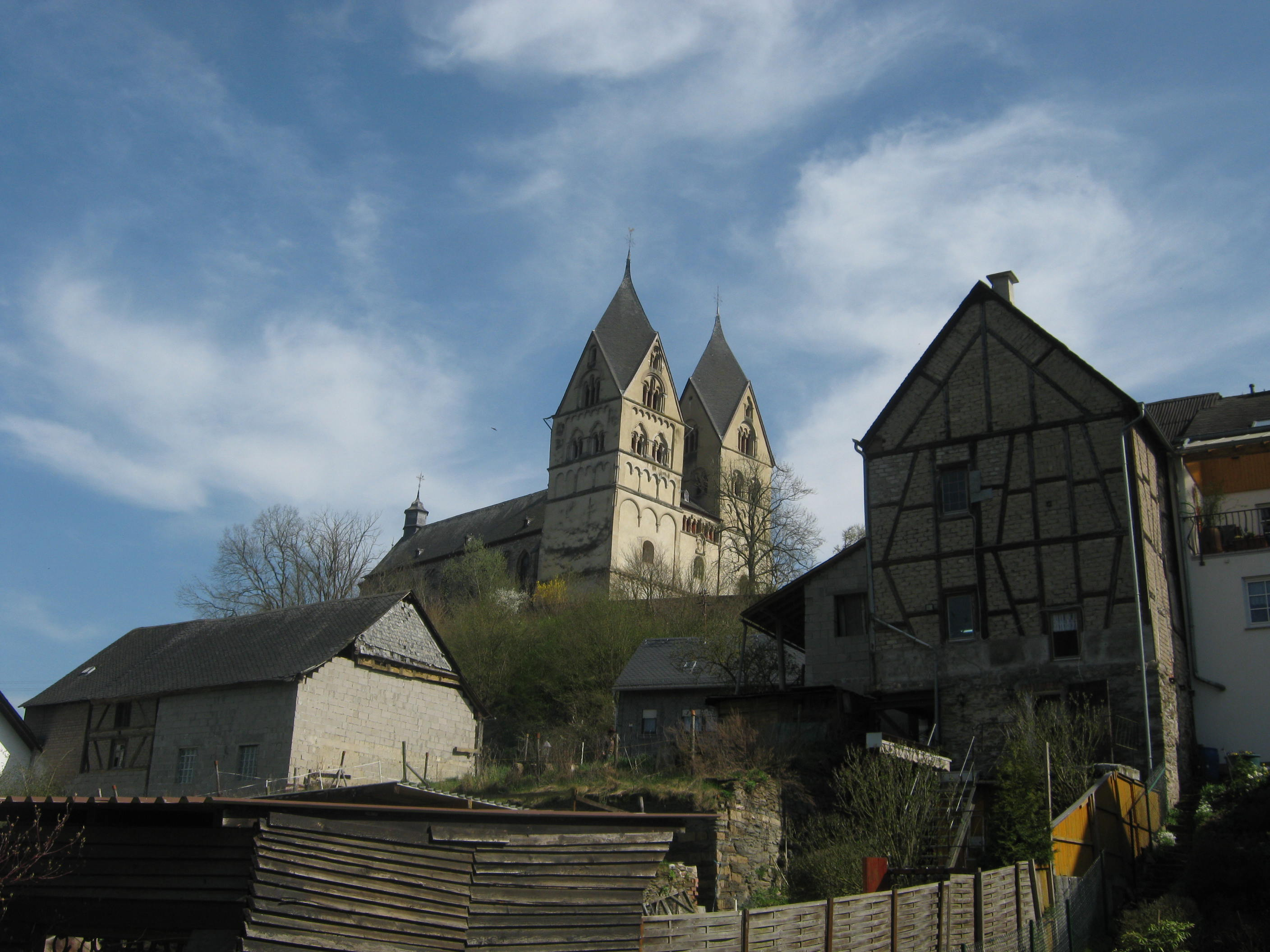 Kloster Ravengiersburg. Husnrück landscape, Germany